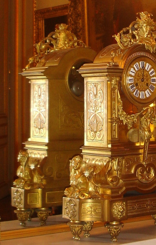 Clock-Royal Collection Belgium